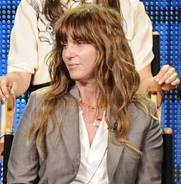 Executive producer Katie Jacobs during the HOUSE session of the 2009 FOX WINTER TCA Tuesday, Jan. 13 at the Universal Hilton in Universal City, CA.